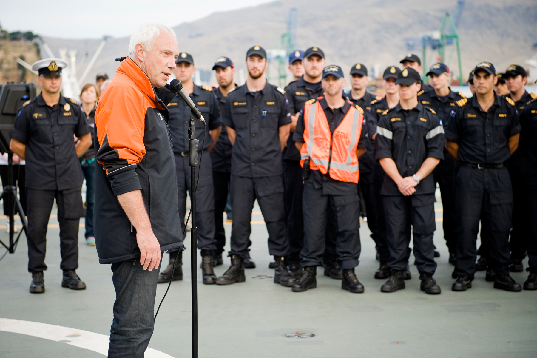 Mayor Bob Parker to members of the ships company from HMNZS CANTERBURY, HMNZS OTAGO and HMNZS PUKAKI prior to taking a tour onboard 20110228_PH_V1020230_0080